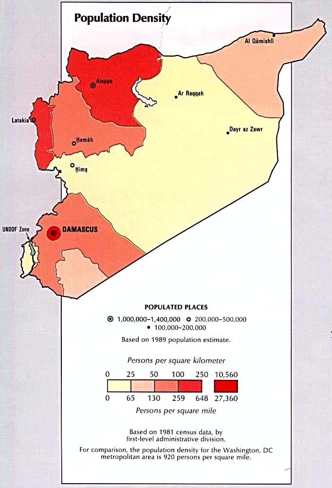 Syria - Population Density from the CIA Atlas of the Middle East 1993 (86K)